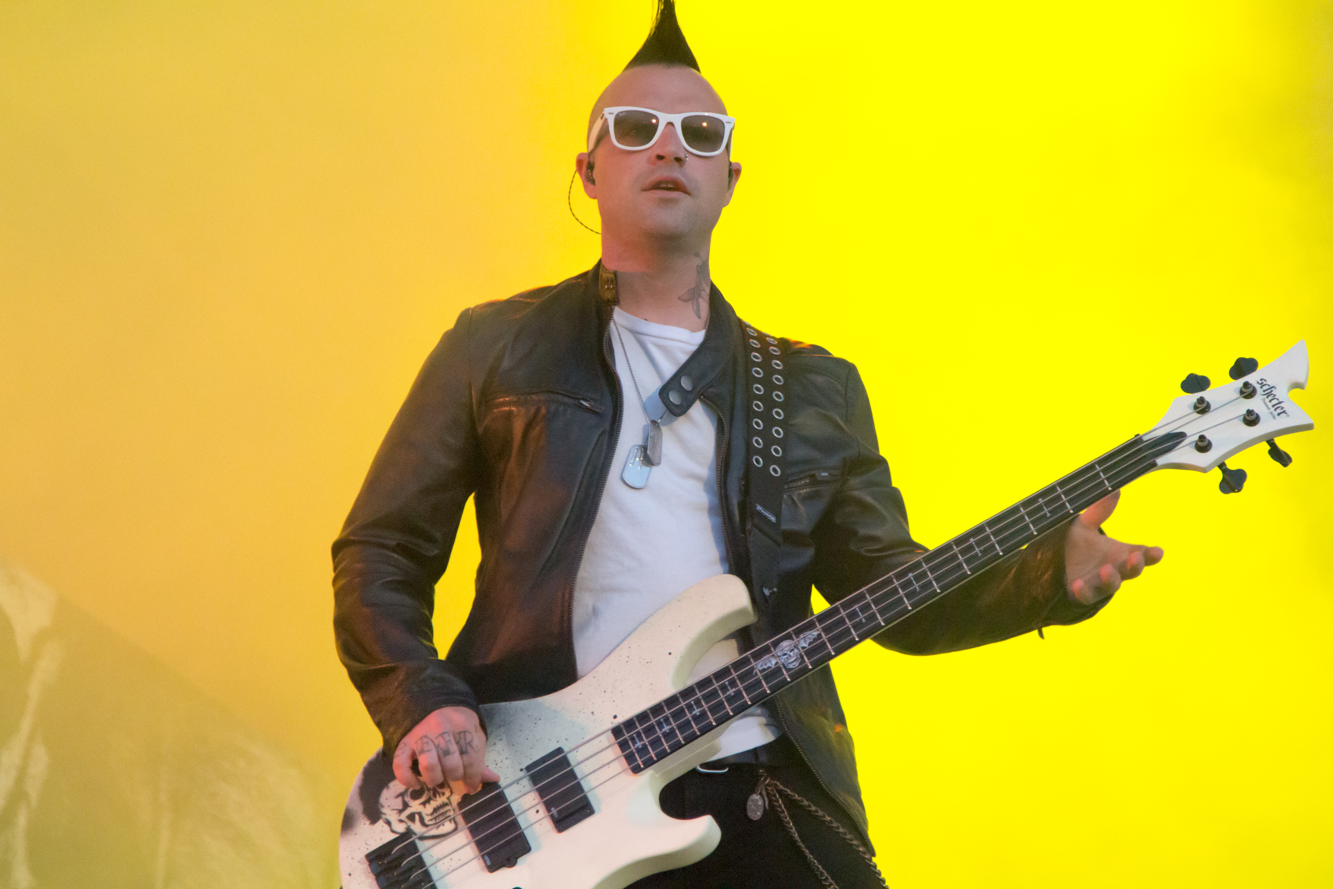 Johnny Christ from Avenged Sevenfold at Nova Rock 2014